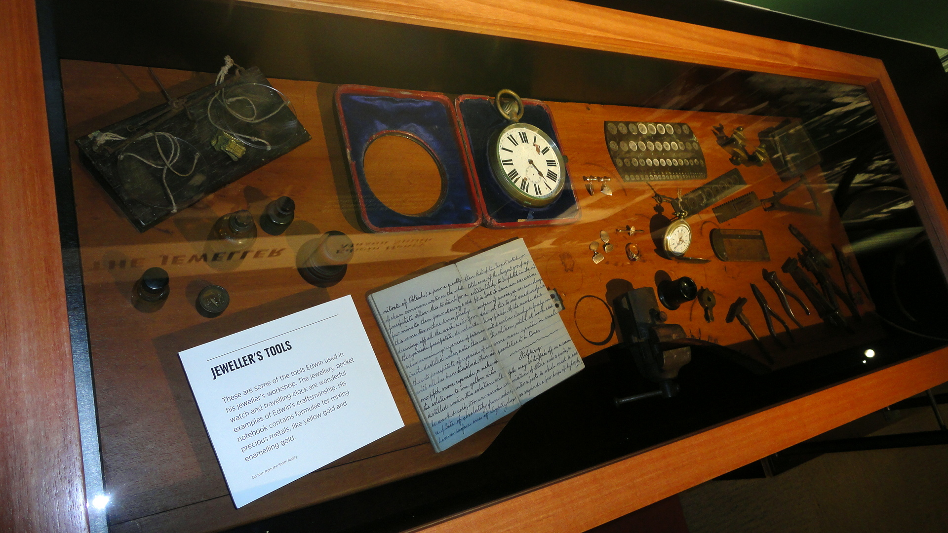 Photograph of display case with 20th Centenary Jewellers Tools